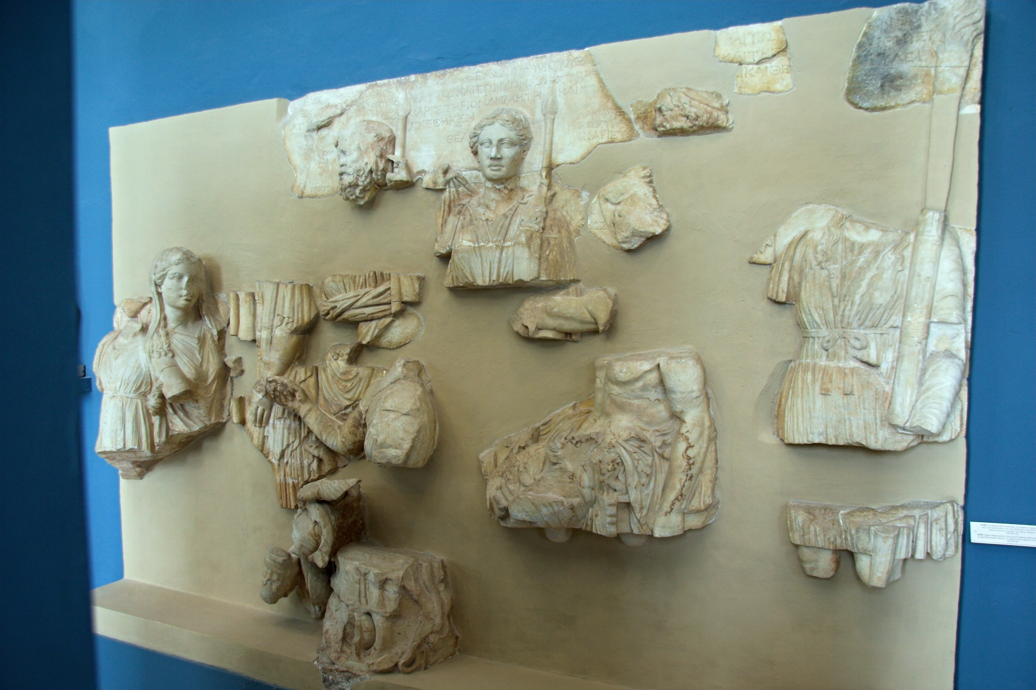 Torso of large votive relief, marble. Shows the Eleusinian myth about Triptolemus. Upper middle is Hades (Plouton) and Persephone. Donated priest Lakrateides and his family for Eleusinian gods, 100-90 BC. Archaeological Museum of Eleusis no. 5079.